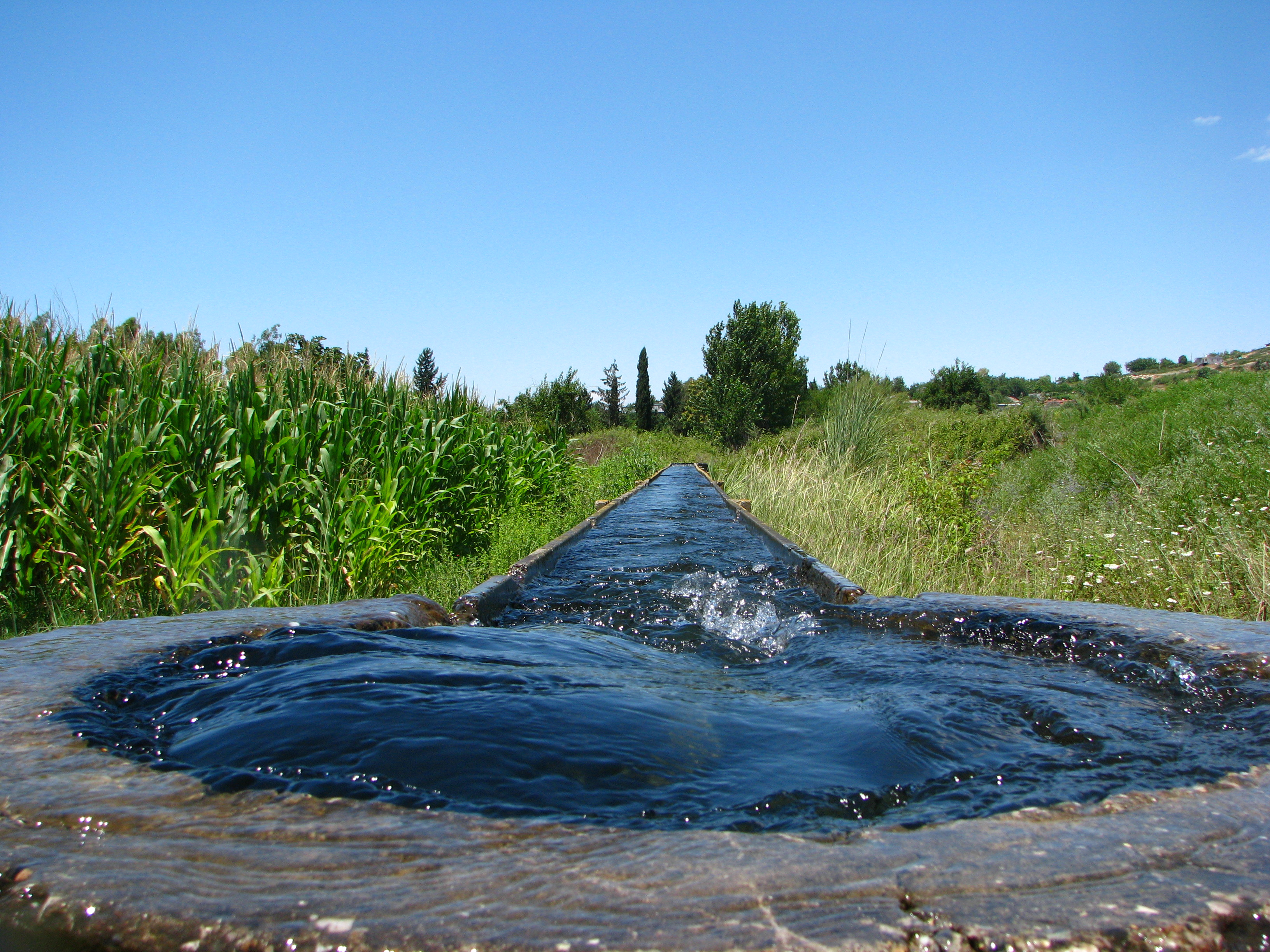 Irrigation canal in Osmaniye Province, southwestern Mediterranean Turkey.